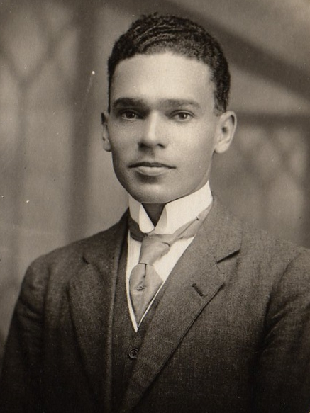 William Robinson Clarke, one of the first black military pilot in history, pictured circa 1914.